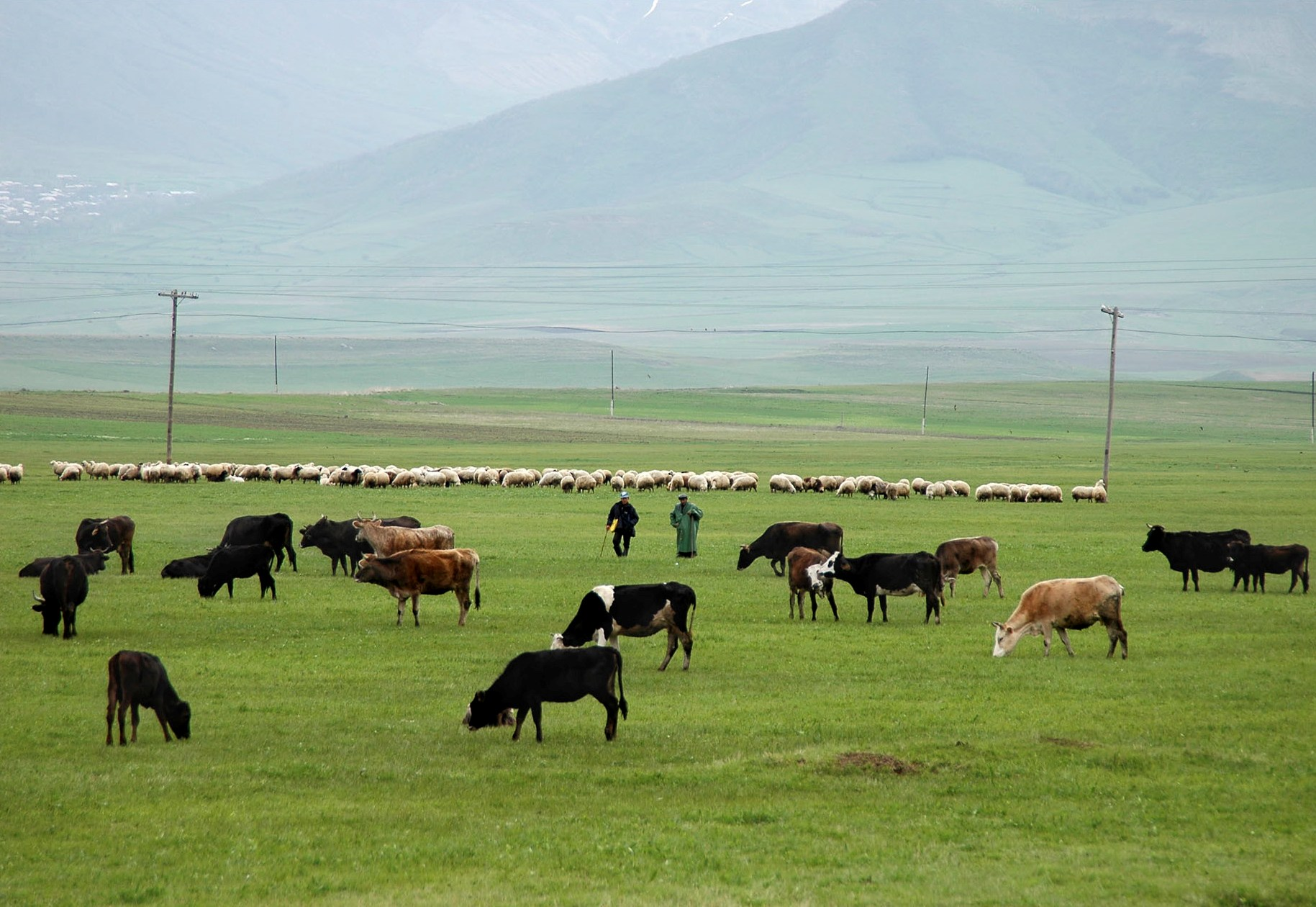 Cattle grazing in Armenia.